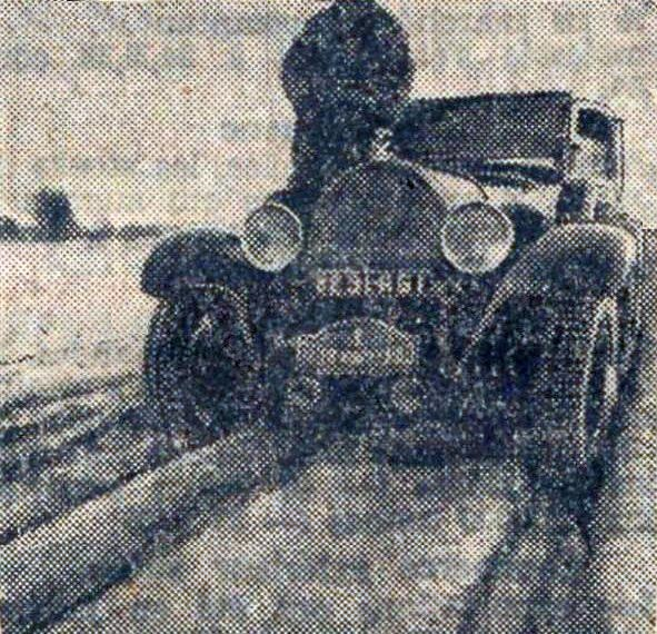 Entry #1 in the 1933 Rallye Monte Carlo was a Hotchkiss AM 80 S 3,485 ccm driven by Maurice Vasselle. They had started in Tallinn and won the race overall this year[1].